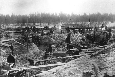 the prisoners' labour at the Belomorkanal construction site